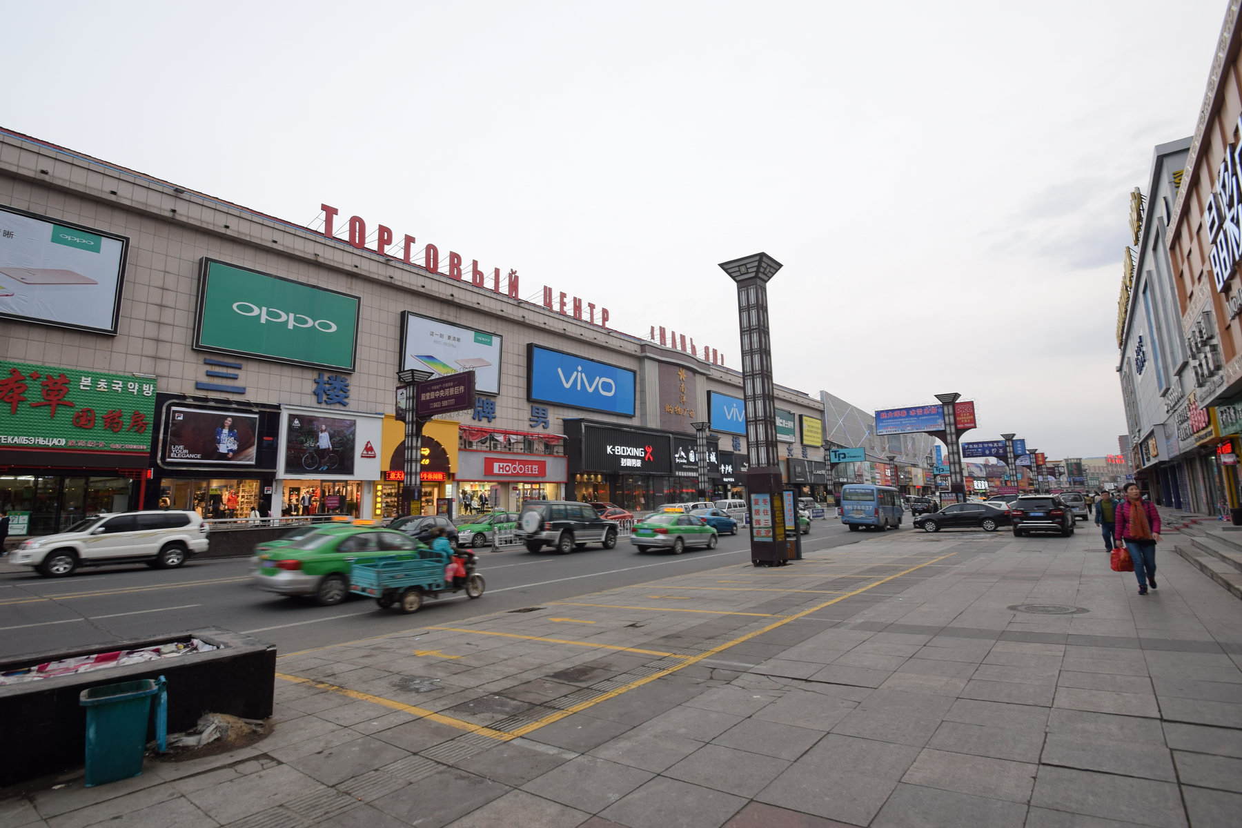 Yanhe Xijie, Hunchun